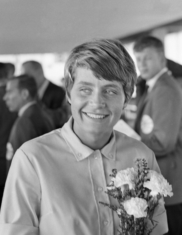 Oľga Kozičová